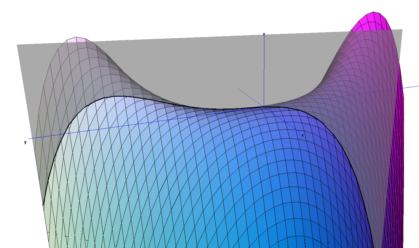 On Peano's surface z = − ( y 2 − 2 p x ) ( y 2 − 2 q x ) {\displaystyle z=-(y^{2}-2px)(y^{2}-2qx)} "Every plane through the z-axis, without exception, cuts the surface in a quartic with a maximum at the point (0, 0, 0). ".